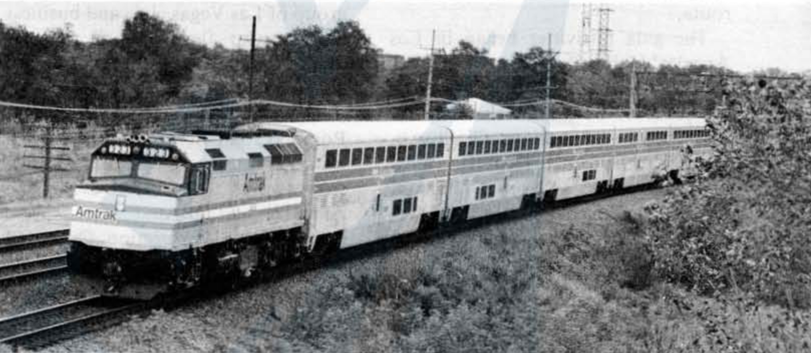 An Amtrak press run with new Superliner cars, stopped at Lisle, Illinois in October 1979. Photographers were hoisted onto a factory roof by a cherry-picker to get this photographic angle.